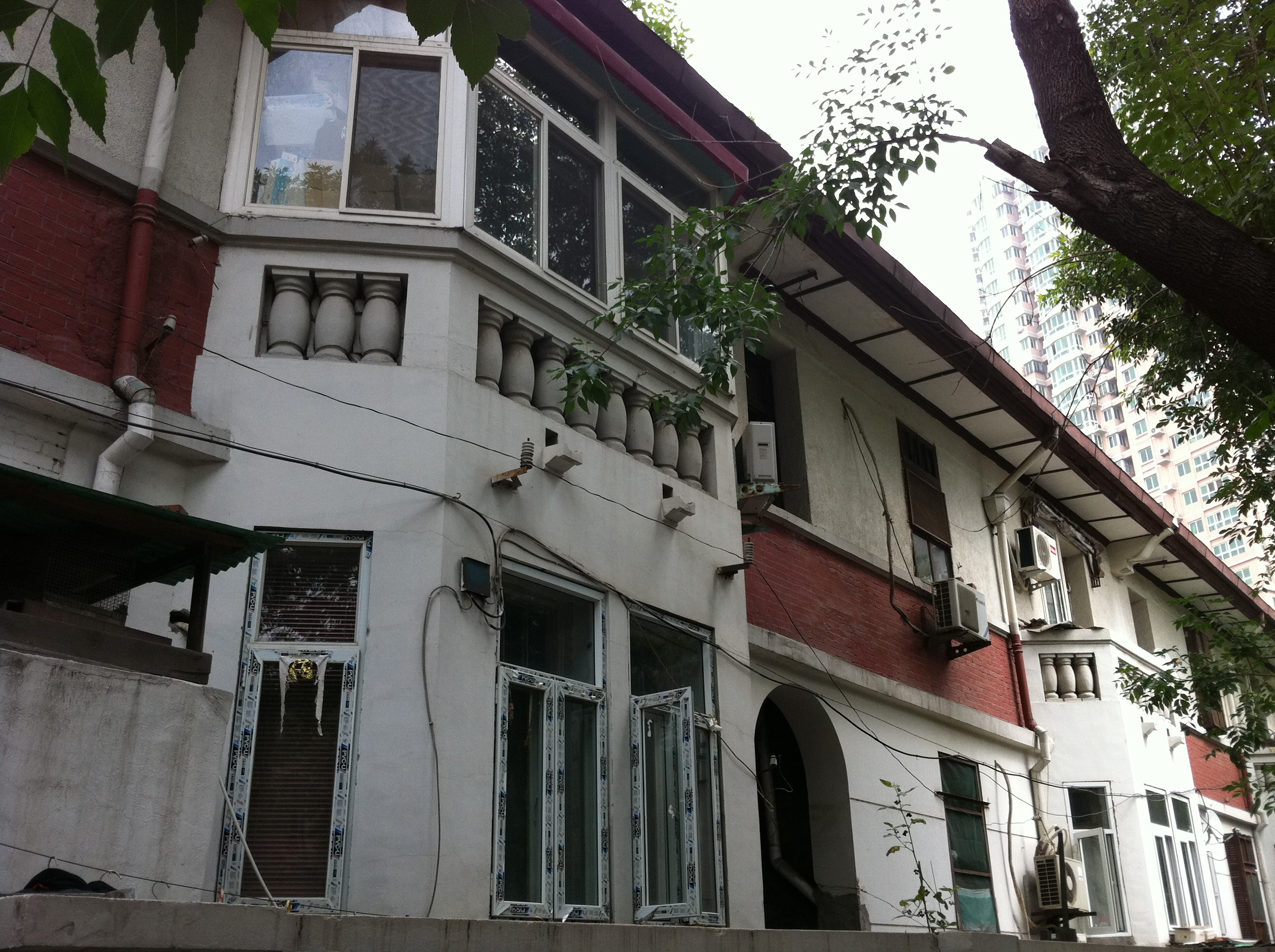 Henan Lu No. 183-187